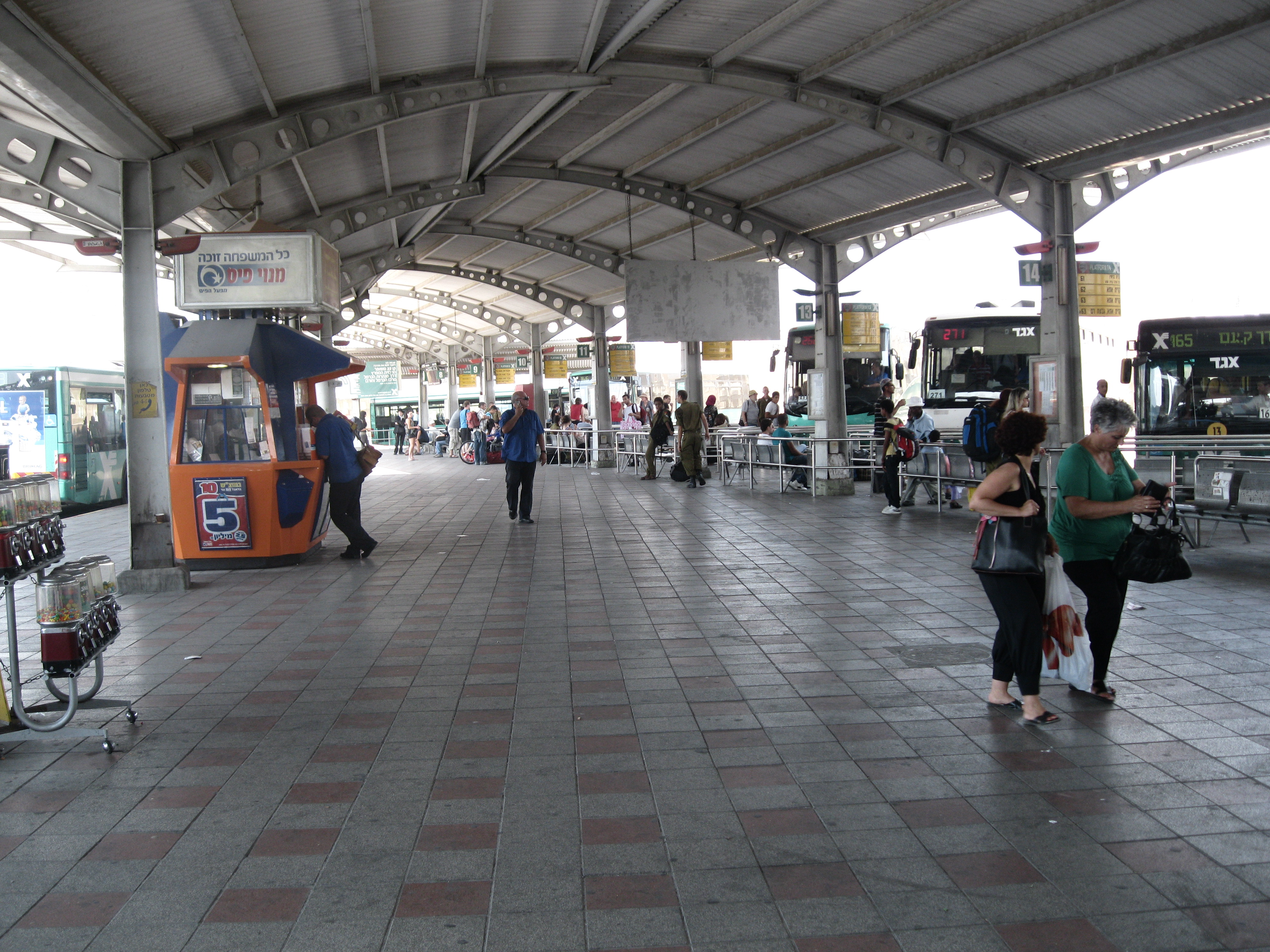 Streets in Haifa